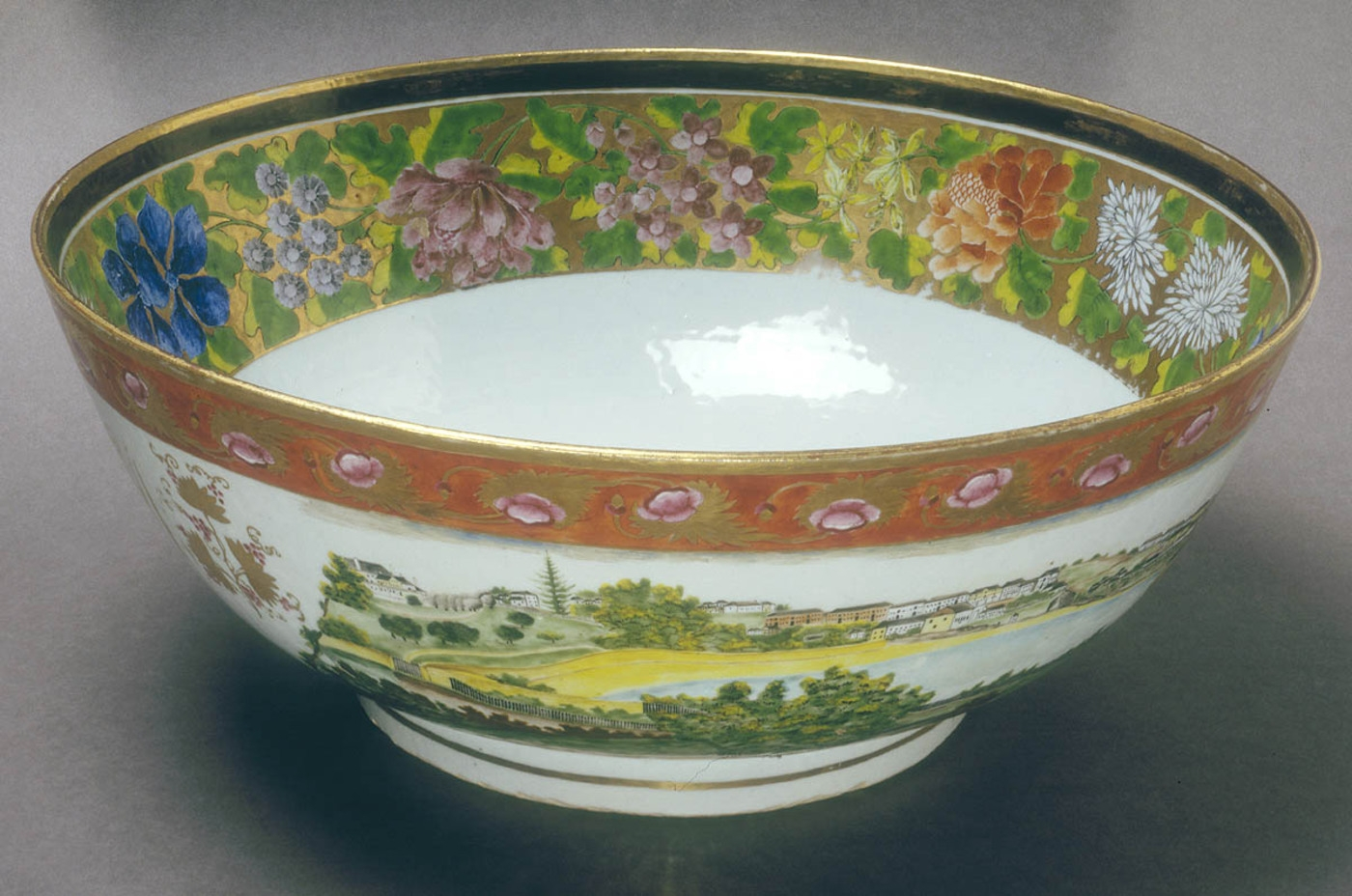 Chinese export ware punchbowl of enamelled porcelain featuring a scene of Sydney Cove before 1820. Exterior painted with a continuous scene of Sydney Cove, inner and outer borders of the rim are of a gilded Chinese floral design. In the bowl's interior are a group of Aboriginal figures.